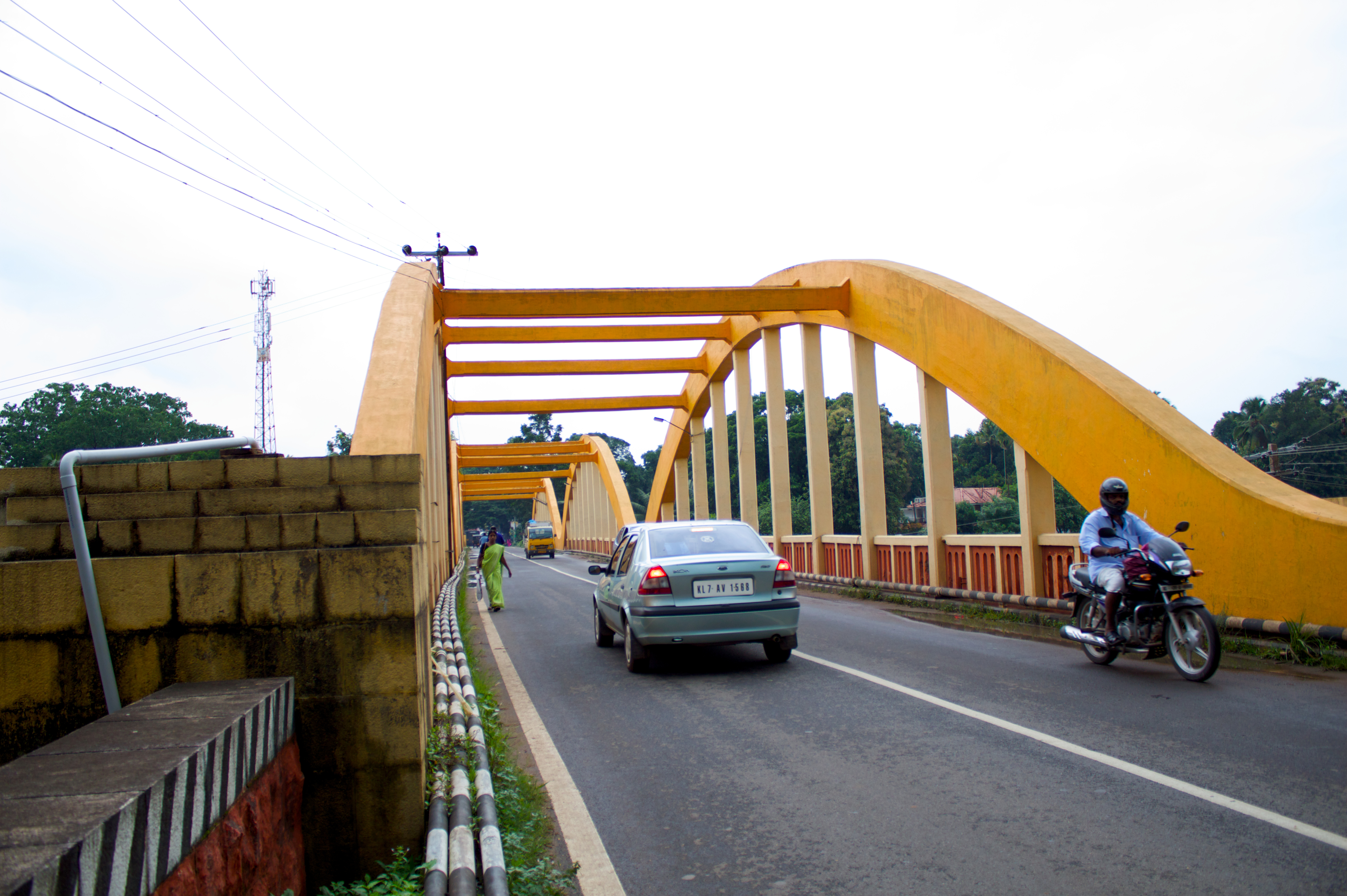 Bridge